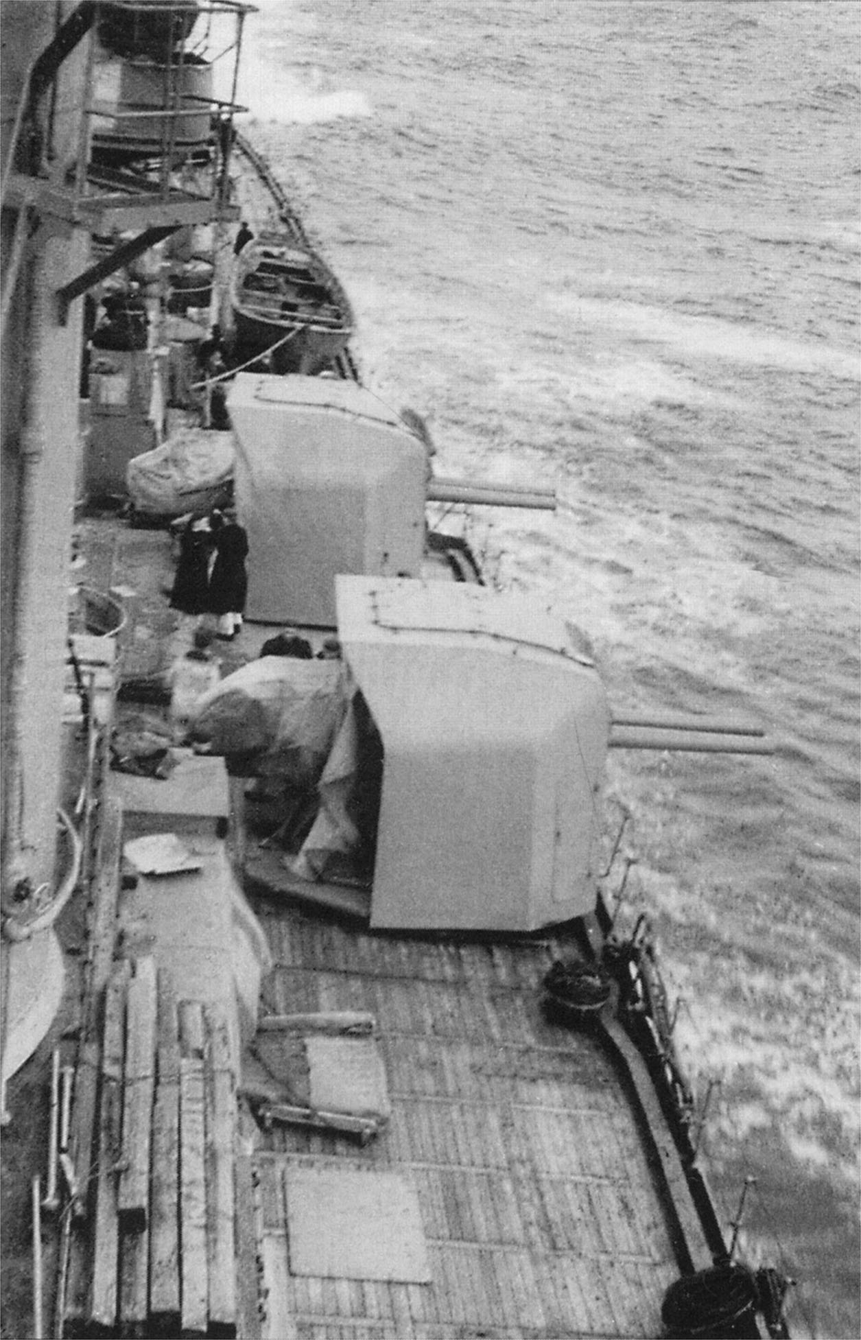 Soviet 100 mm anti-air gun Minizini on cruiser Krasnyy Kavkaz.